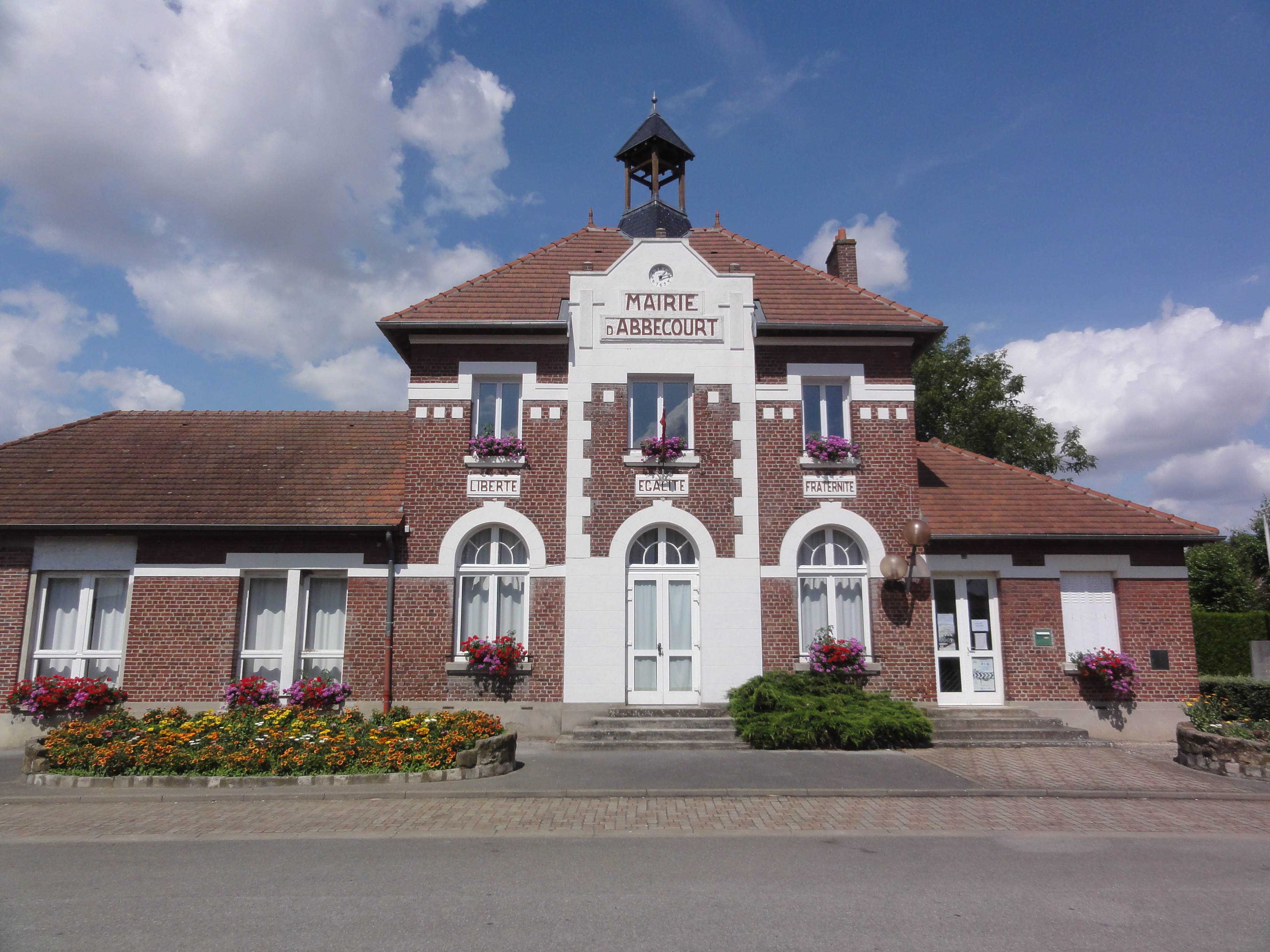 Abbécourt (Aisne) mairie